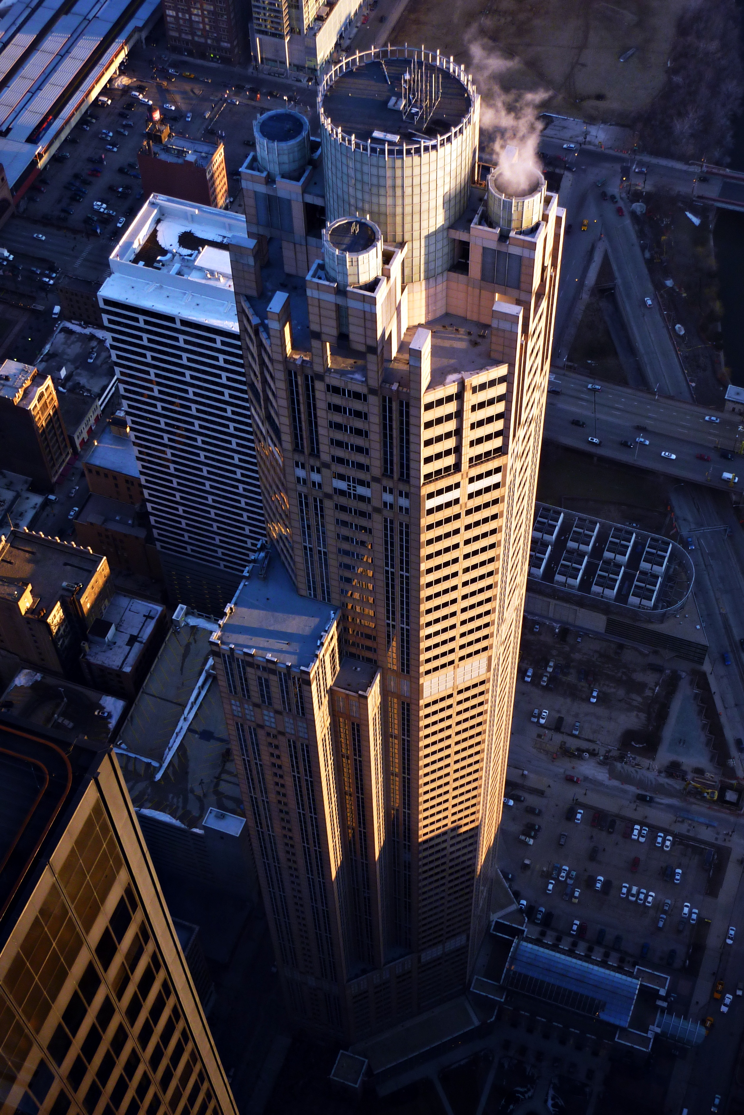 331 South Wacker Drive as seen from Willis Tower in Chicago, IL, USA.